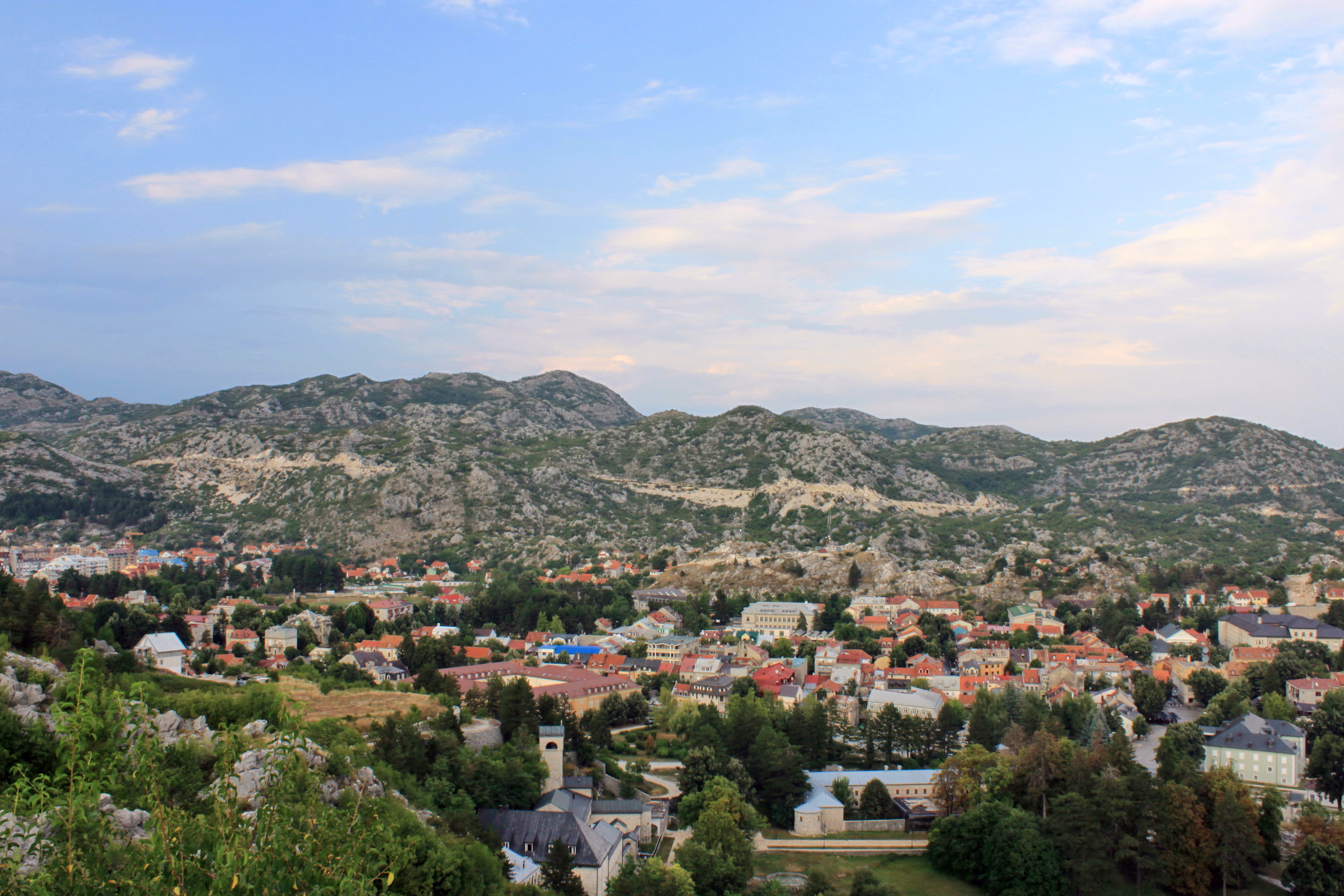 View of the city. Cetinje, Montenegro.